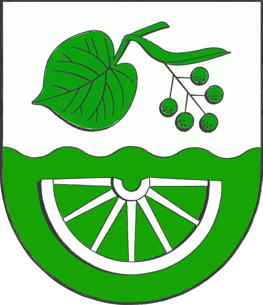 Coat of arms of the municipality Lindewitt in Schleswig-Holstein, Germany